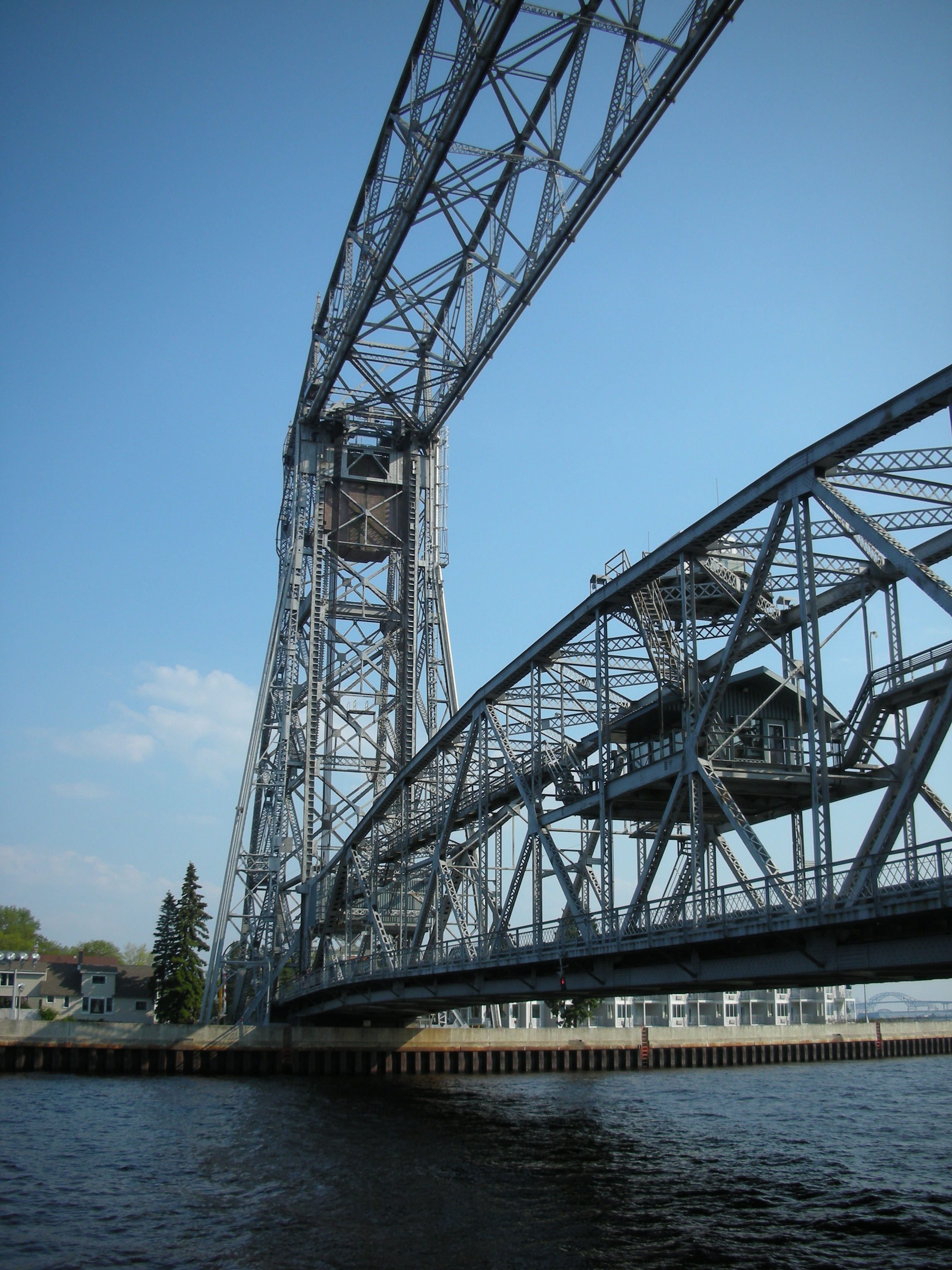 Lift aerial bridge, Duluth, Minnesota